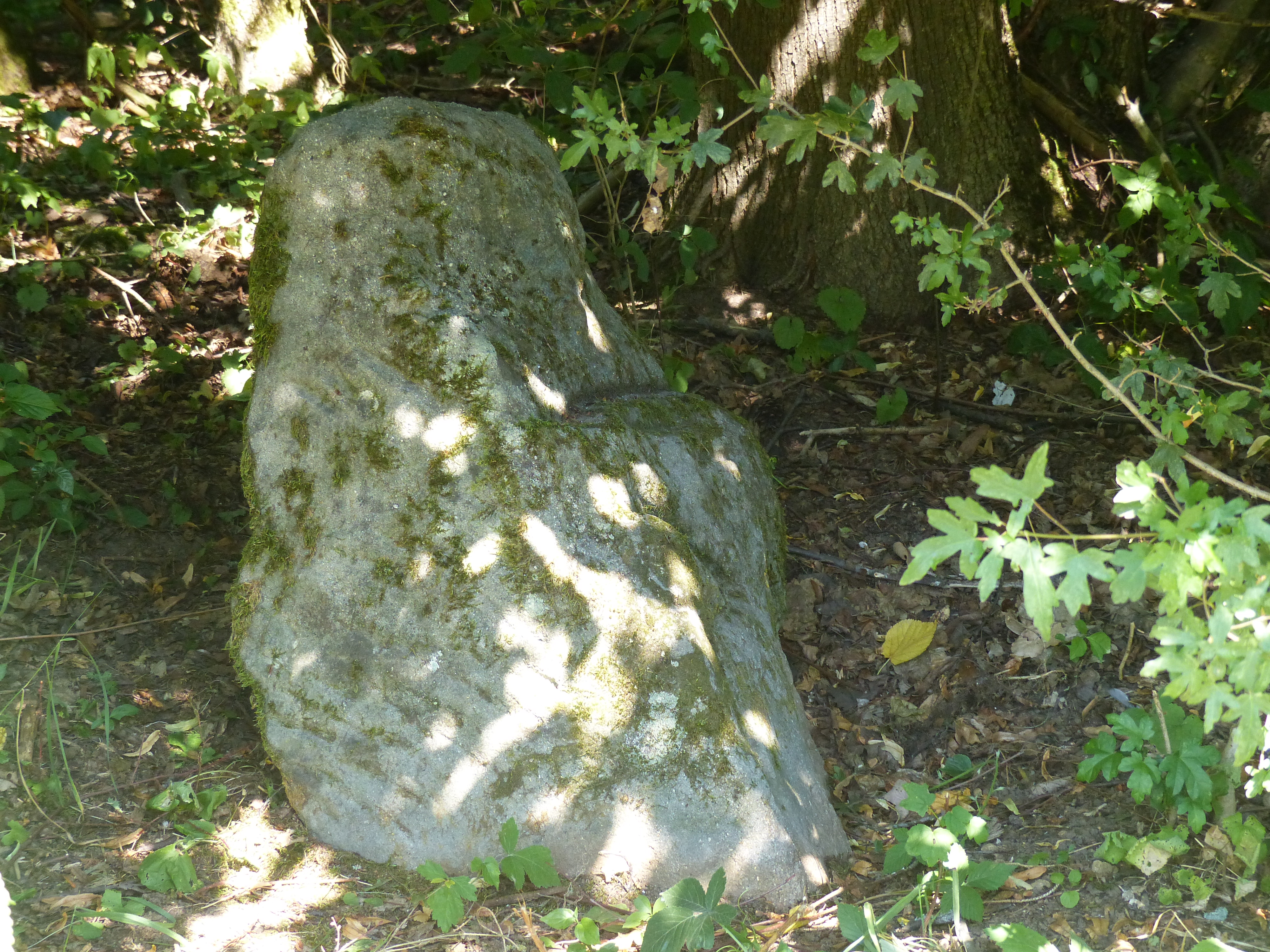 The northwestern boundary stone of the hamlet Ottenberg, a district of the town of Betzenstein.